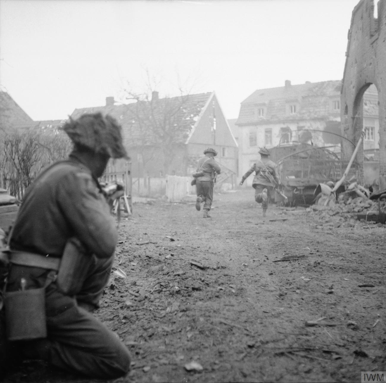 The British Army in North-west Europe 1944-45 Men of the 9th Durham Light Infantry clearing resistance in the village of Weseke, 29 March 1945.